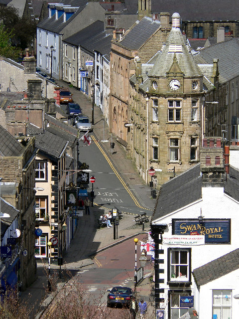 Clitheroe town centre. Photographed from clitheroe castle.